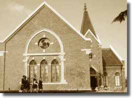 PD photo of Harada-no-mori Campus in 19th century